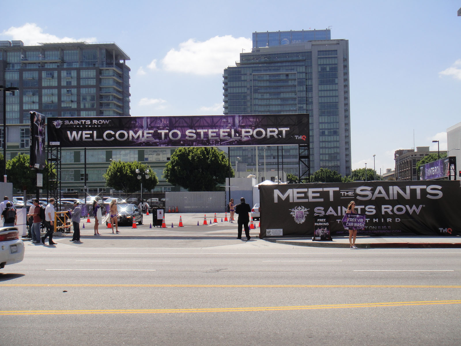 photo 2011 taken by Doug Kline If you're interested in higher resolution versions of my images, contact me via my profile page.